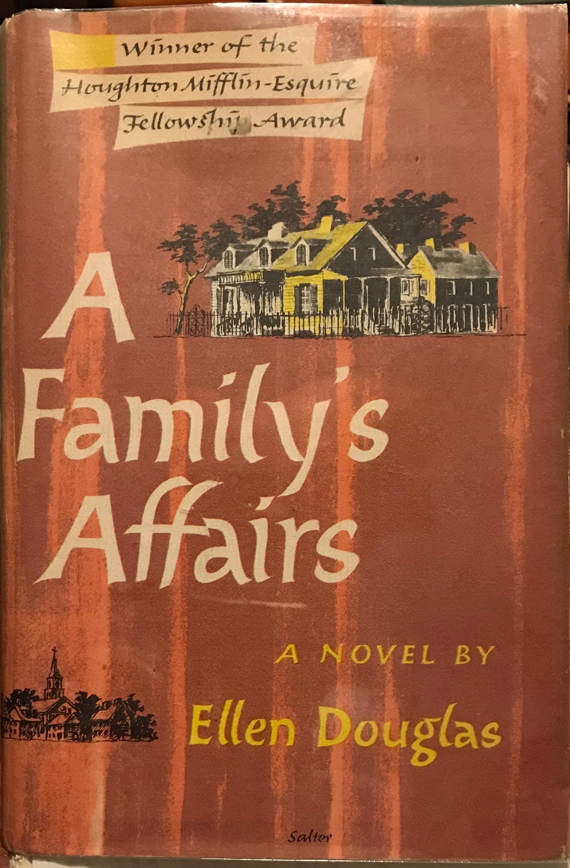 This is the front cover art for the book A Family's Affairs written by Ellen Douglas. The book cover art copyright is believed to belong to the publisher, Houghton Mifflin, or the cover artist, George Salter.